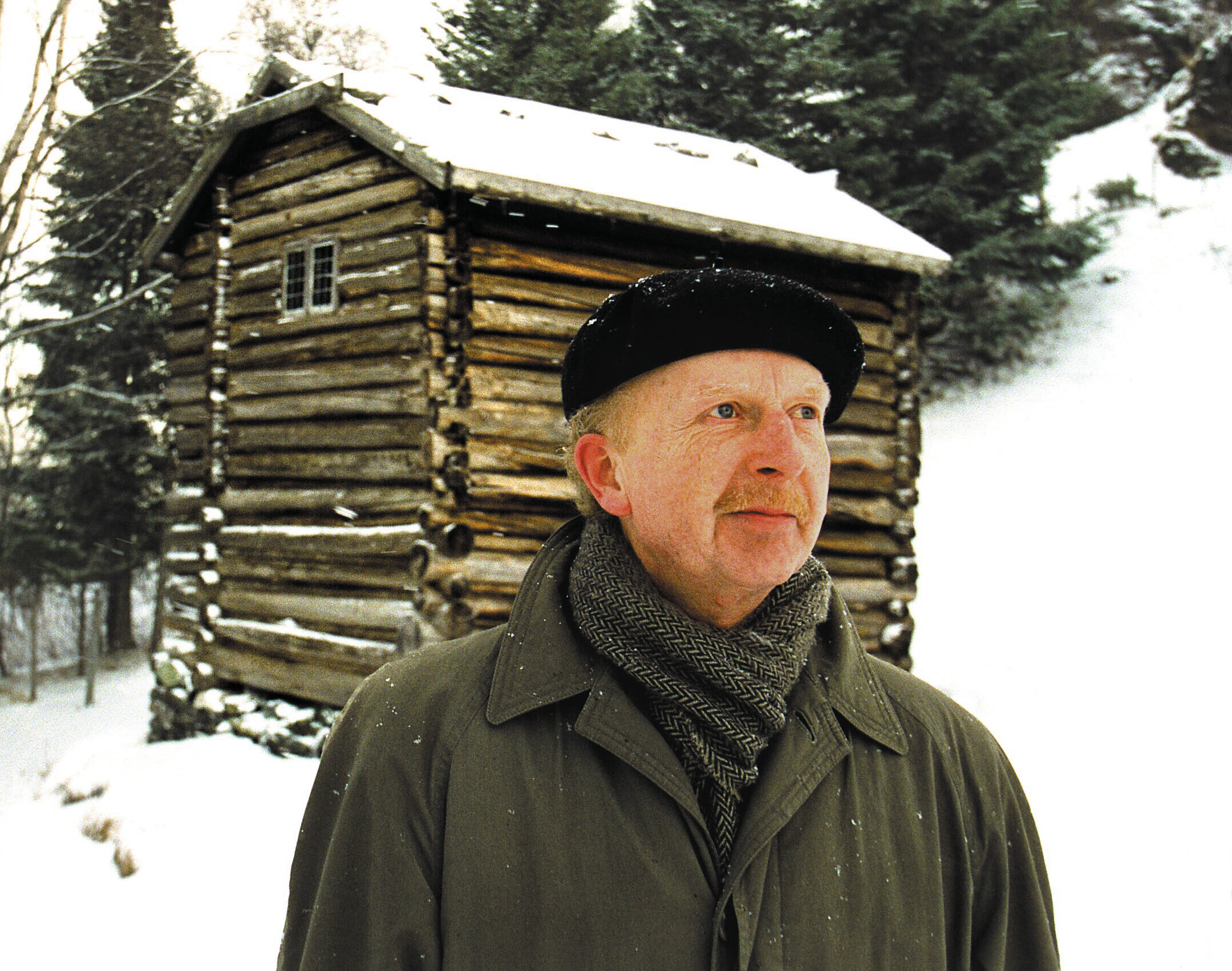 The Norwegian architect and architectural historian, professor emeritus from The Norwegian University of Science and Technology, Knut Einar Larsen